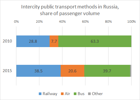 Intercity public transport methods in Russia, share of passenger volume (2010-2015) Data sources: 2010 - 2015.